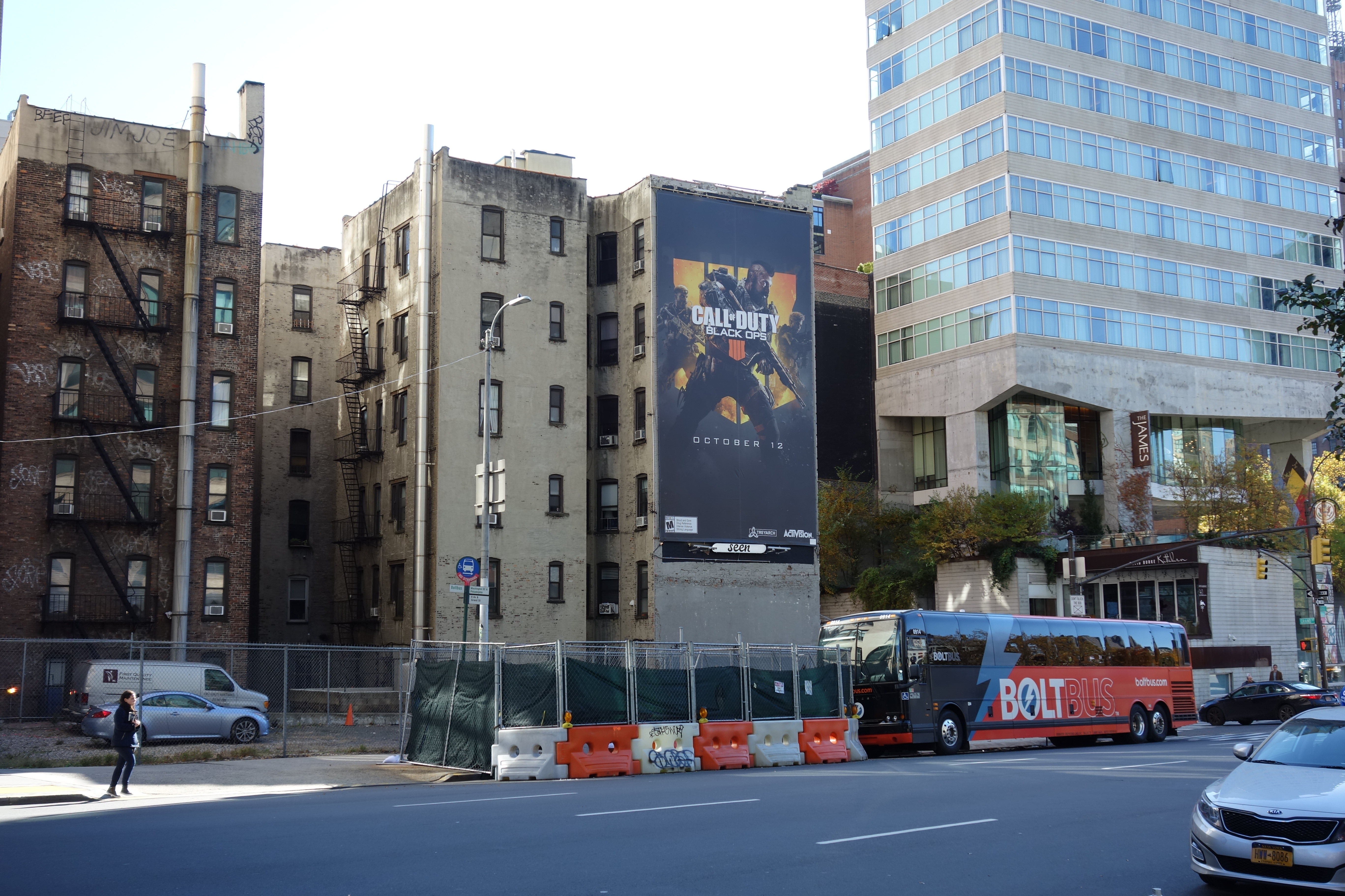 Looking at the rear face of 30 Grand Street (26-32 Grand Street, 21 Thompson Street) at the northeast corner of 6th Avenue and Grand Street in SoHo, Manhattan.